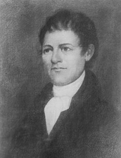 Portrait of Senator William Logan of Kentucky